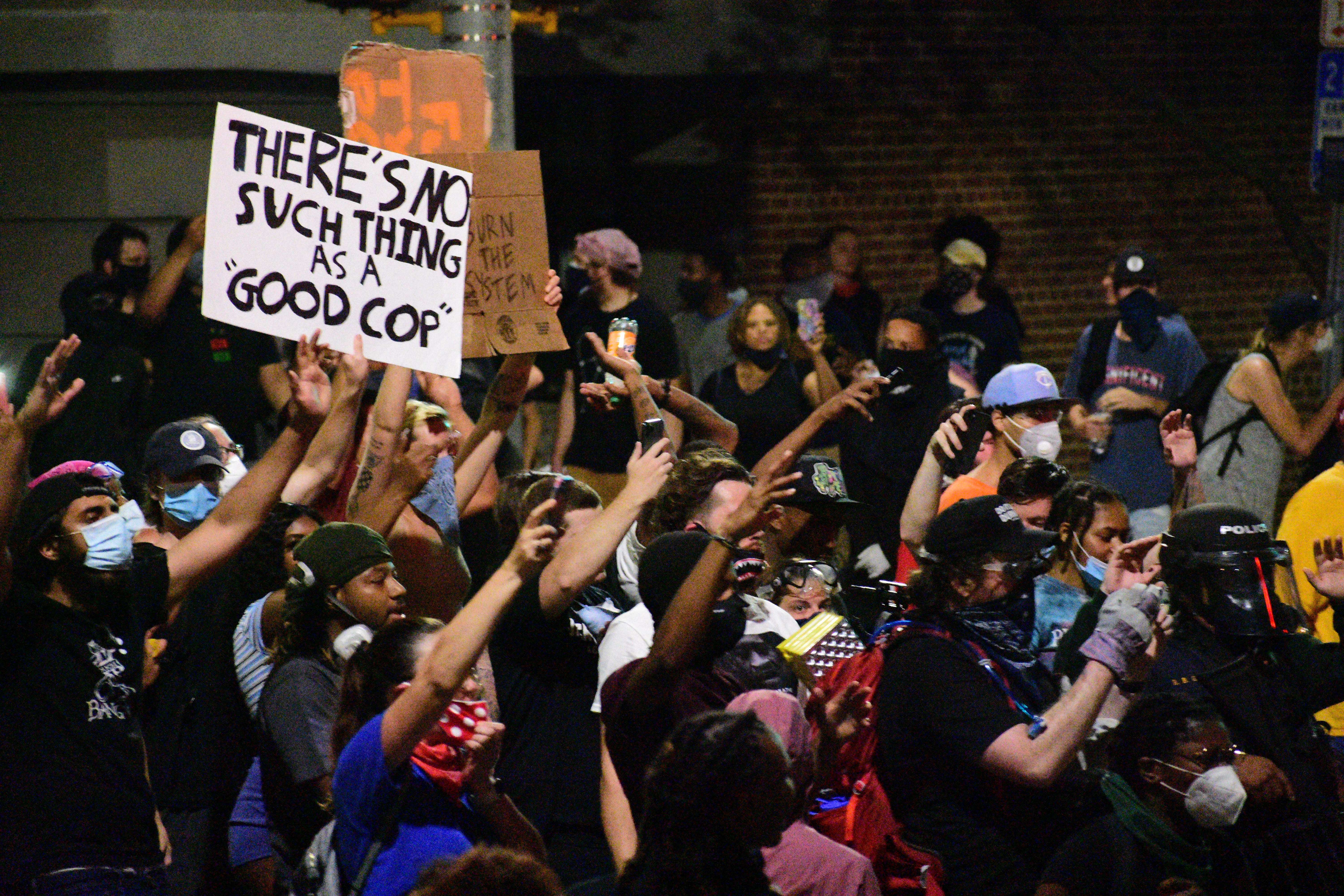 Raleigh Demands Justice (2020 May)